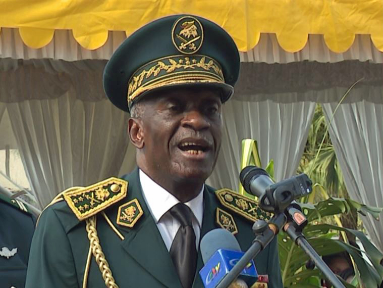 Defense Chief of Staff Lieutenant-General Rene Claude Meka speaks at the Defense headquarters in Yaounde, Cameroon, Jan. 21 2019.